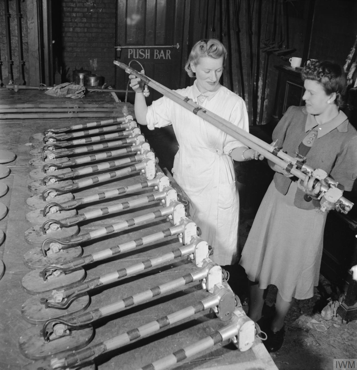 Women war workers check on a row of completed mine detector heads at a factory, somewhere in Britain. UK 1943.